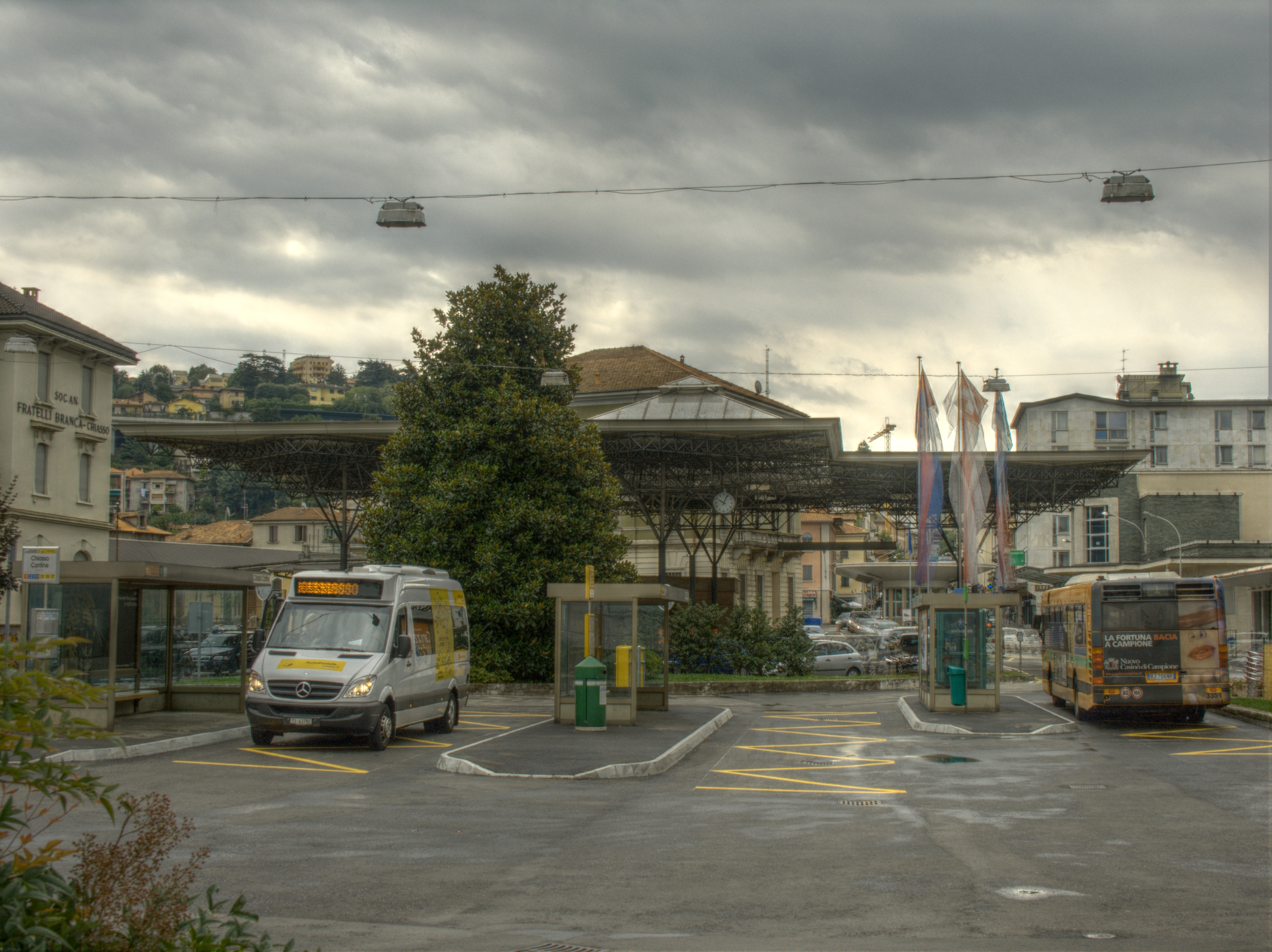 Ponte Chiasso - Chiasso cutoms area on Swiss - Italian border, taken from the Swiss side.